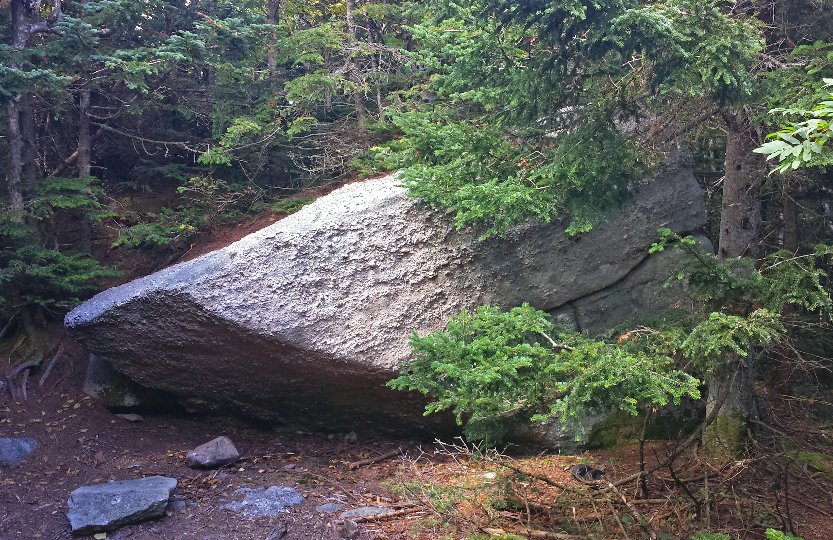 A huge boulder forms the actual summit of Peekamoose. The balsams here are tall enough that there's no view to be had from scrambling the boulder.